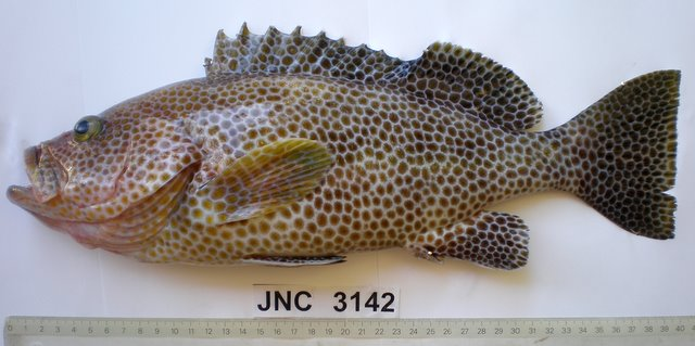 Epinephelus chlorostigma. Locality: External slope off Récif Toombo, off Nouméa, New Caledonia, deep-sea, depth 200-300 m. Fork length 380mm. Weight 718 grams. Date 2009-12-01.